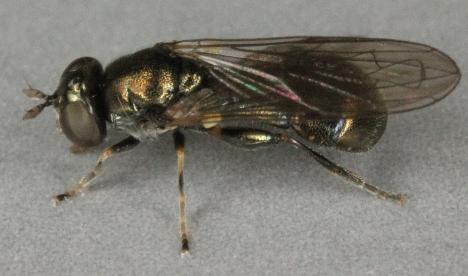 Neoascia tenur, Trawscoed, North Wales, July 2012